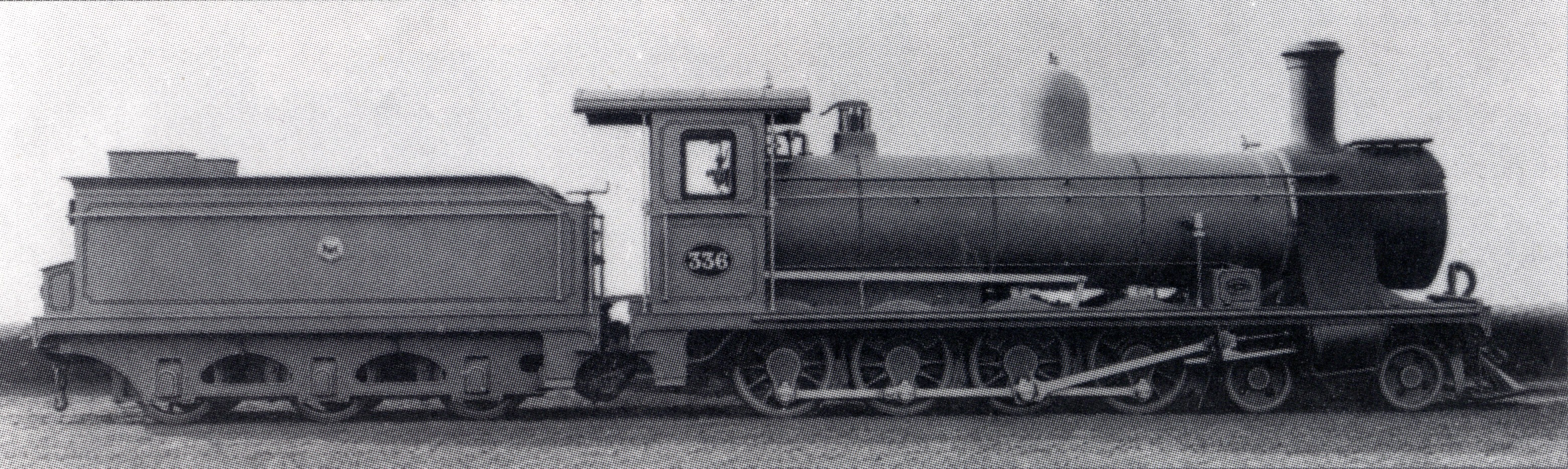 Cape Government Railways 7th Class (4-8-0) no. 336, as built, with Type ZB tender